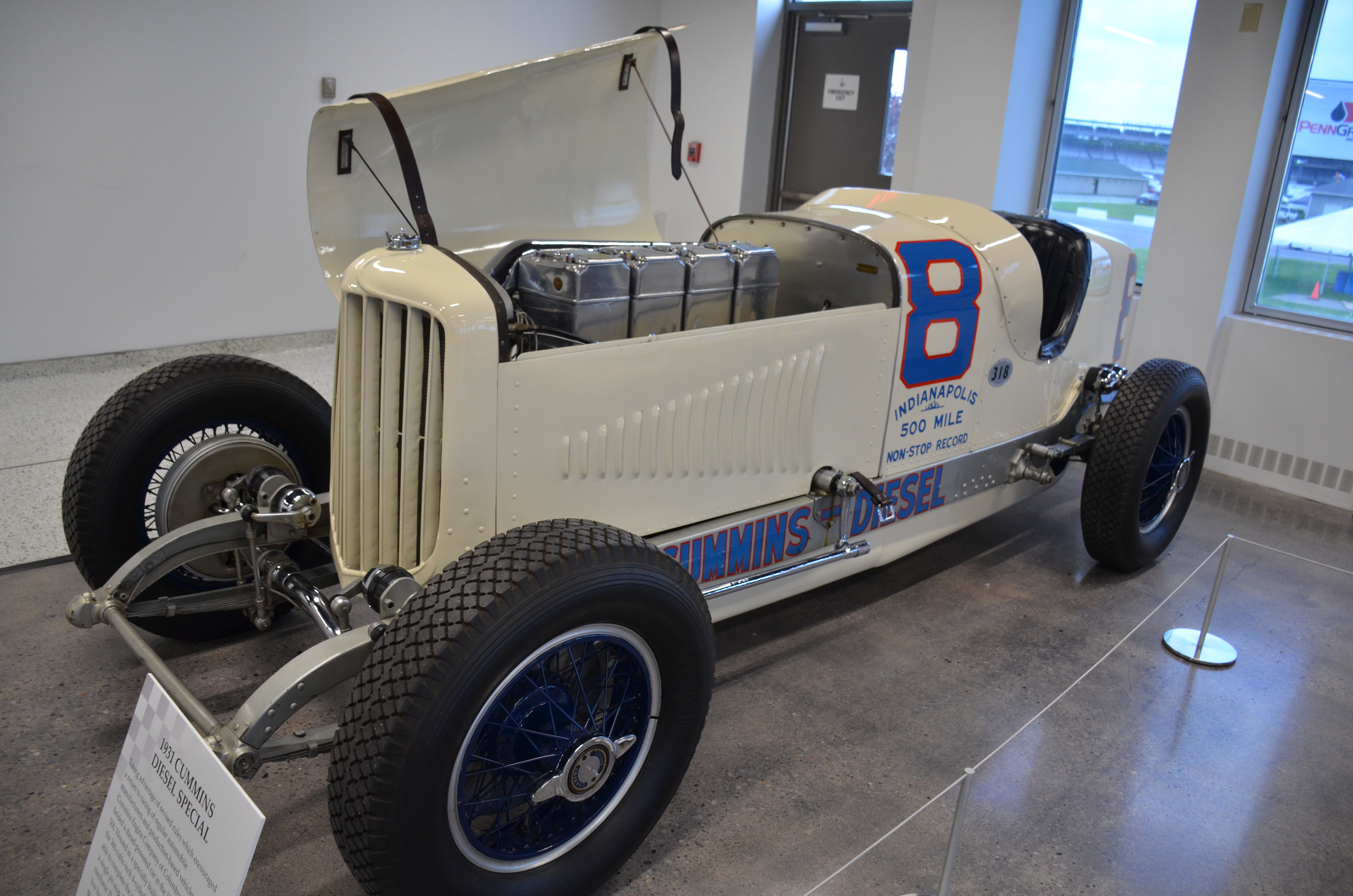 1931 Cummins Diesel at the Indianapolis Motor Speedway Museum